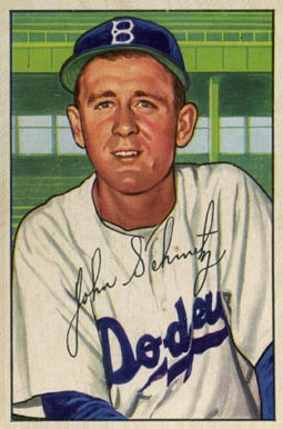 Former Major League Baseball player Johnny Schmitz in 1952.